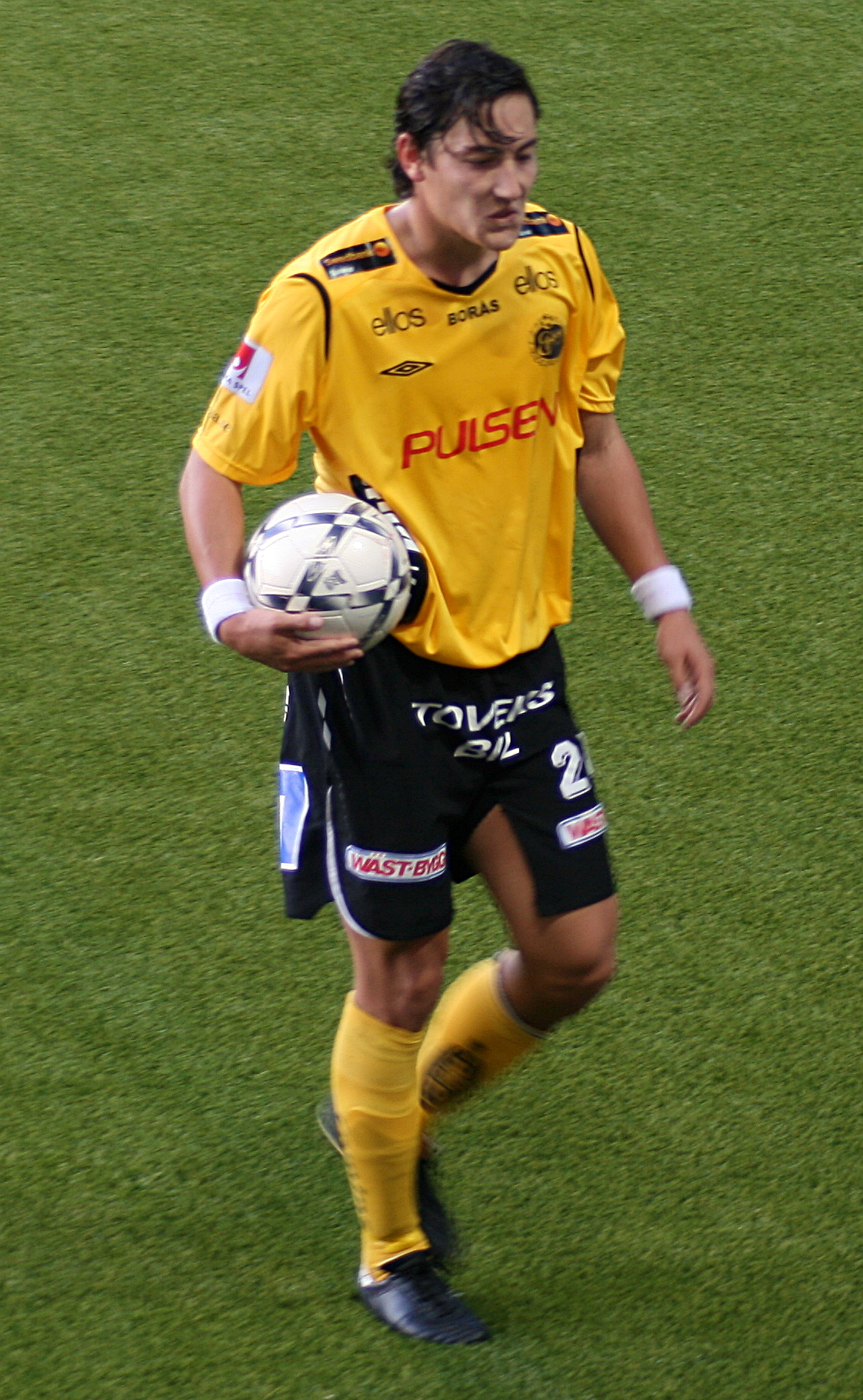 The footballplayer Stefan Ishizaki in Elfsborg